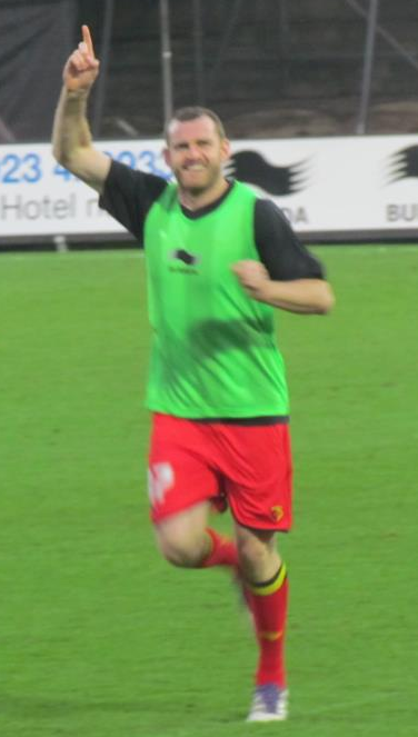 Craig Beattie during his time at Watford